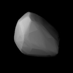 3D convex shape model of 5026 Martes, computed using light curve inversion techniques. J. Hanuš, J. Ďurech, M. Brož, B. D. Warner (June 2011). "A study of asteroid pole-latitude distribution based on an extended set of shape models derived by the lightcurve inversion method". Astronomy and Astrophysics 530: A134. ISSN 0004-6361. arXiv